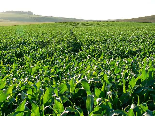 Maize crop, New Barn Farm, Ogbourne St Andrew, Wiltshire. Evening sun shines on the immature crop of maize that will probably be used as cattle fodder. The trees on the left skyline are about a kilometre away on Ogbourne Down.